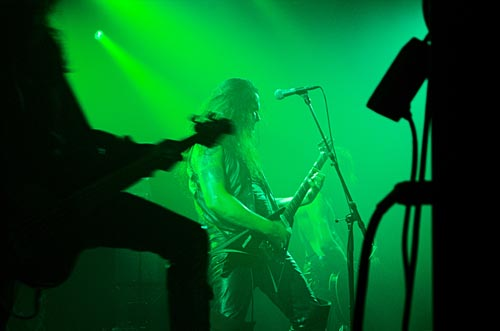 I, live at Hole In The Sky, Bergen Metal Fest 2006